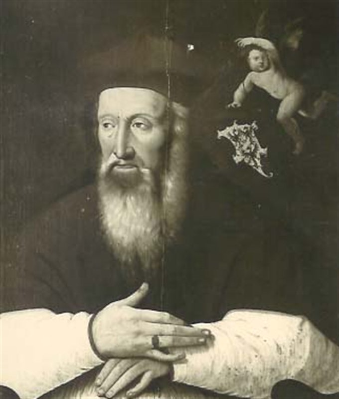 Willem van Enckevoirt (1464-1534)